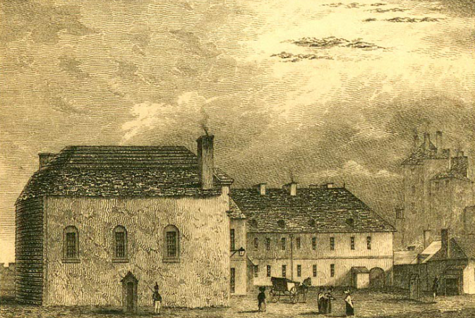 The Parliament Building of Lower Canada in 1820. Situated in Québec City